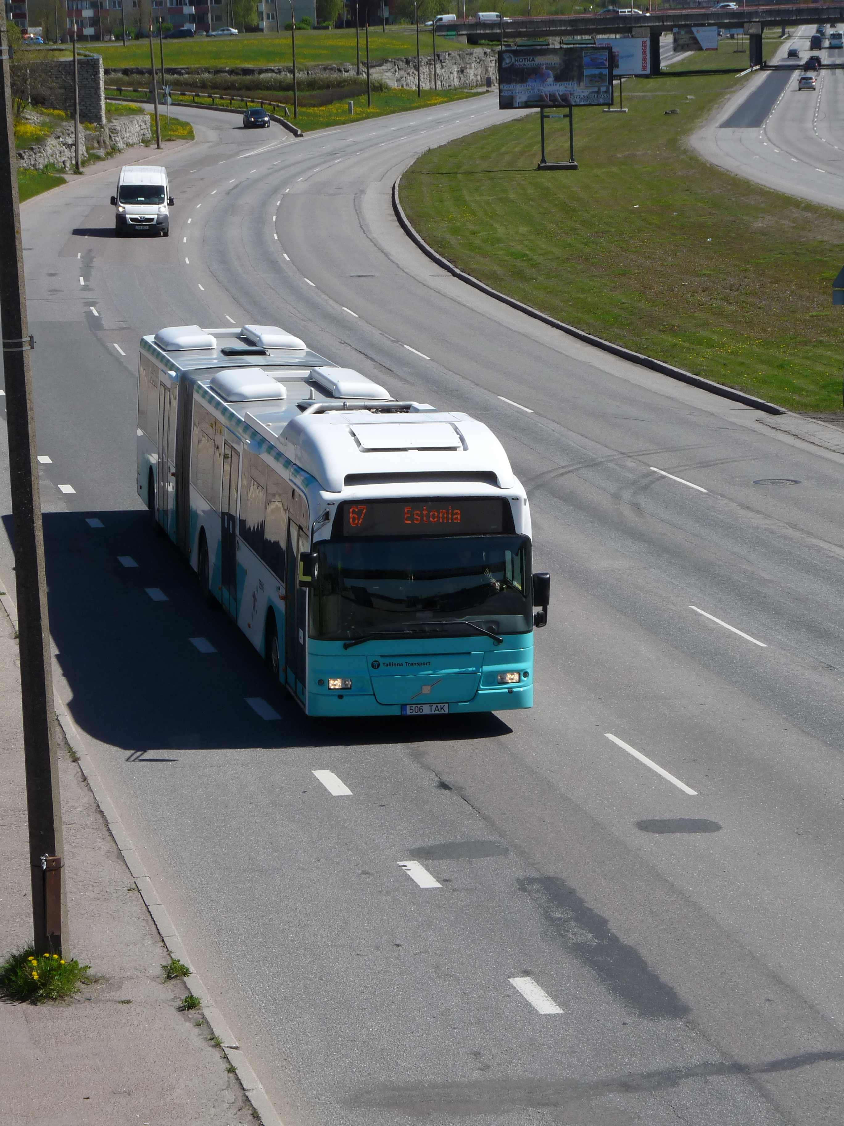 Volvo 7500 public bus in Tallinn, Estonia